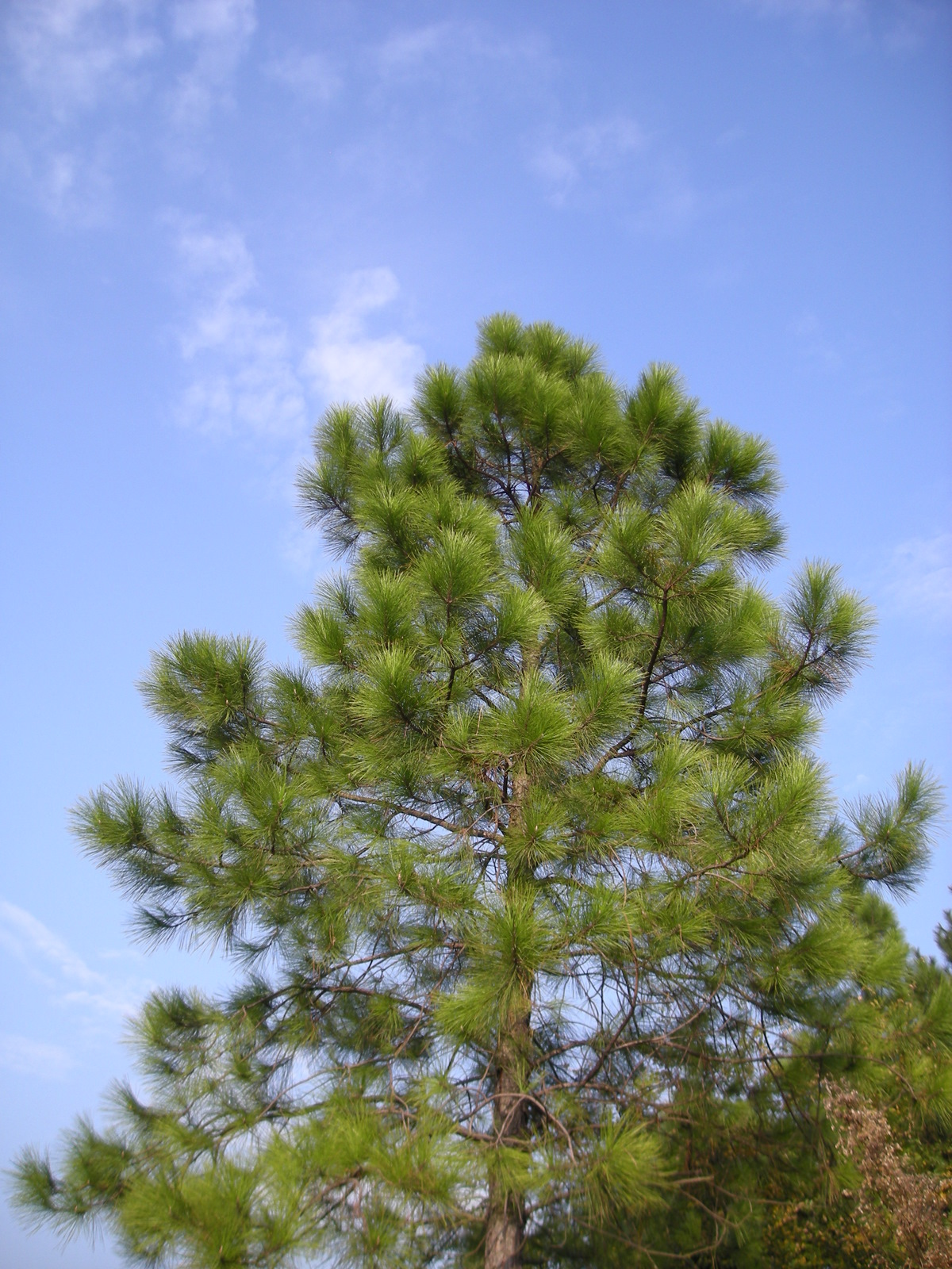 Pinus massoniana. The photo was taken in a hill of elevation about 200M in east of Jiangxi, China.